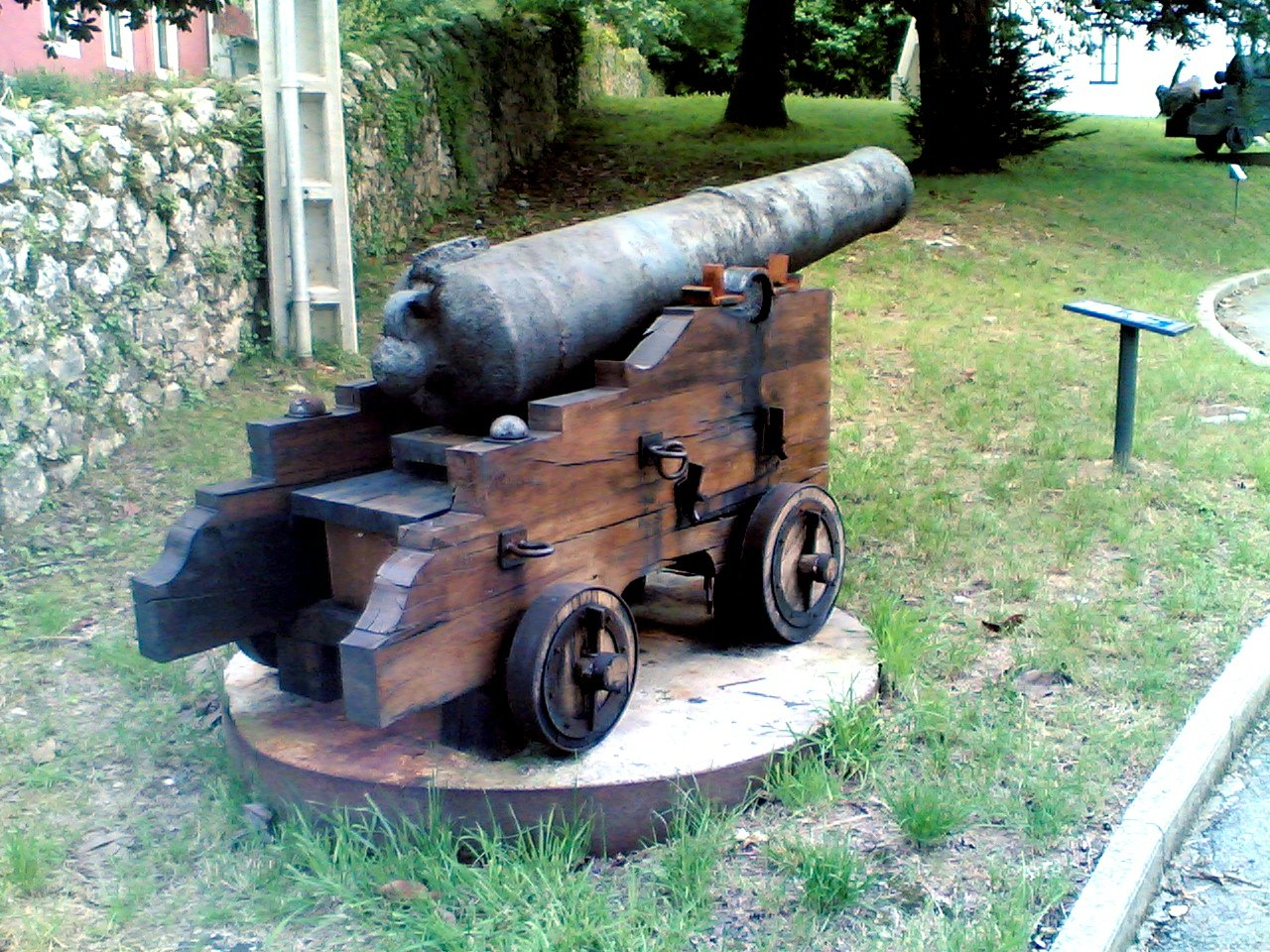 Cannon fused in the Royal Artillery Factory at La Cavada (Cantabria, Spain)